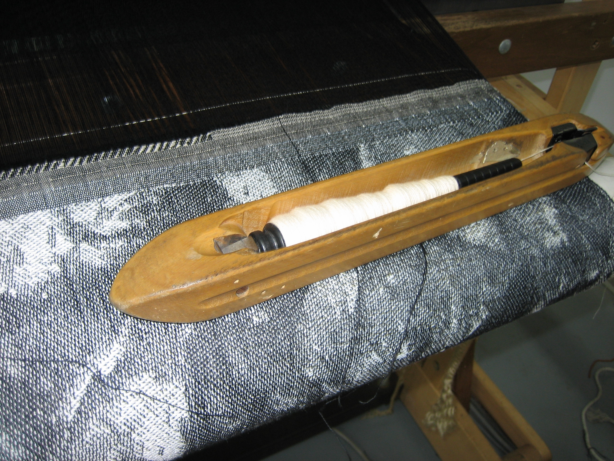 Shuttle on a Jacquard sample